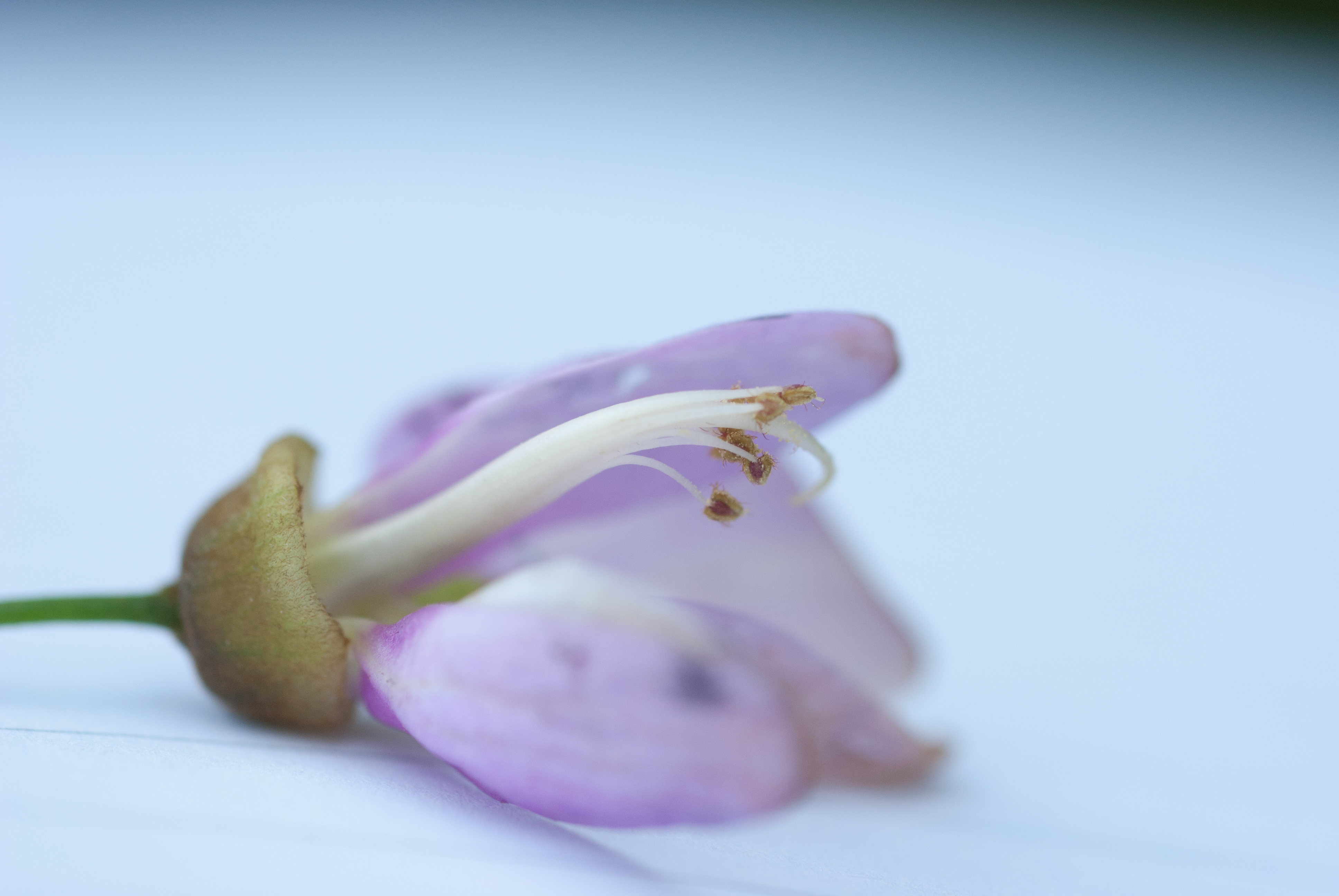 Pongamia pinnata.